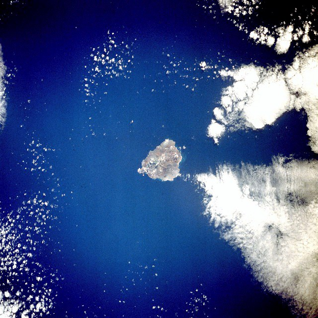 Ascension Island, Atlantic Ocean